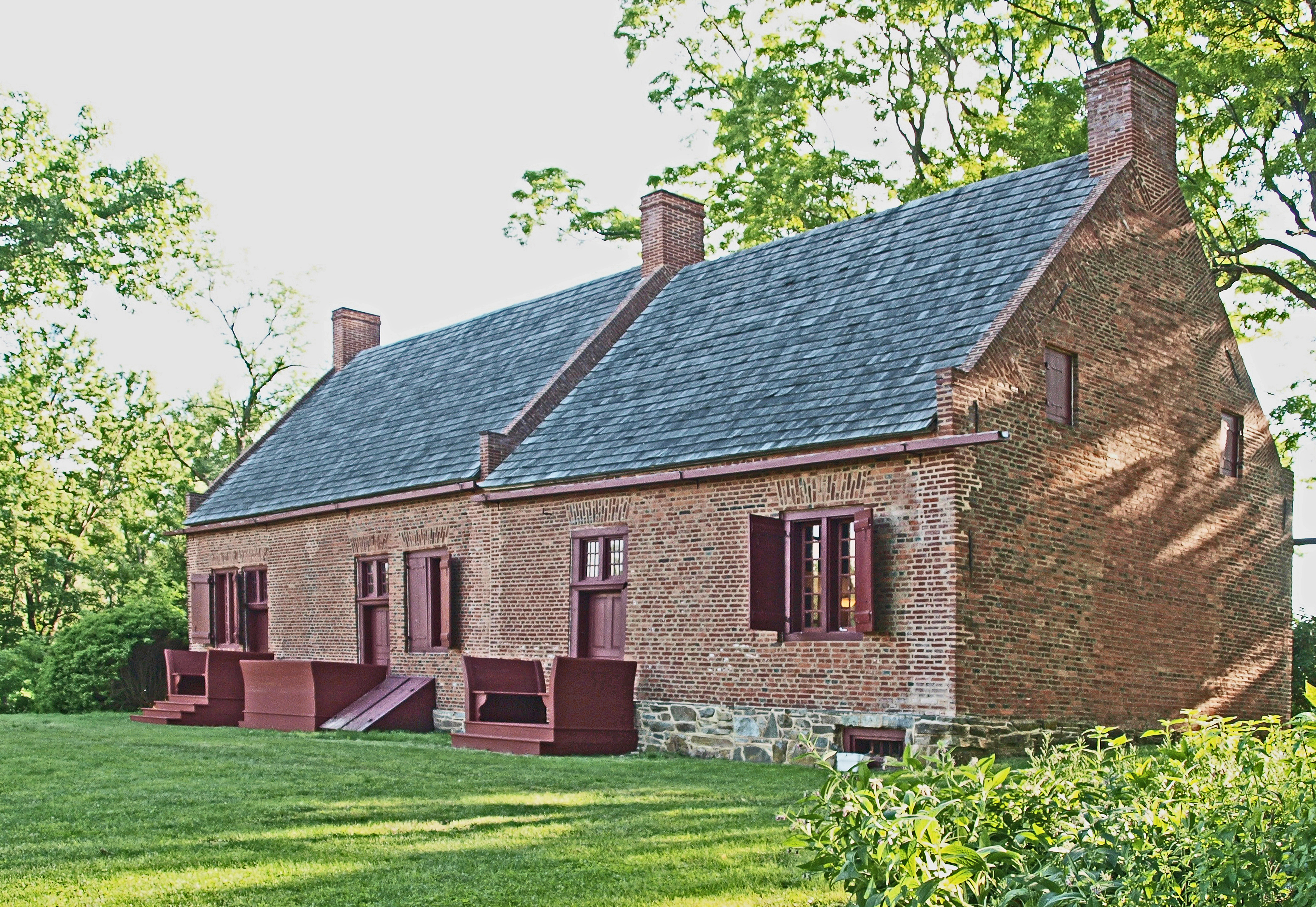 Designated a National Historic Landmark in 1967, the Luykas Van Alen house is a restored house museum representing 18th century rural Dutch farm life in the Hudson River Valley. Called “...one of the most authentic examples of early Dutch architecture remaining in the United States.” by then-Governor Nelson A. Rockefeller.